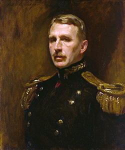 Leonard Wood National Portrait Gallery, Smithsonian Institution, Washington, D.C.Exhibit: "Leonard Wood - Maverick in the Making 1882-1921""